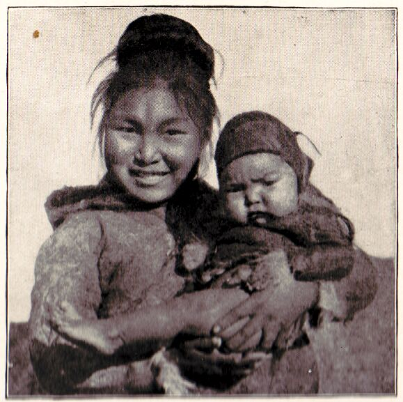 Josephine Diebitsch Peary: The Snow Baby, Frederick A. Stokes Company, New York. A true story with true pictures. Page 22, They were not very Clean